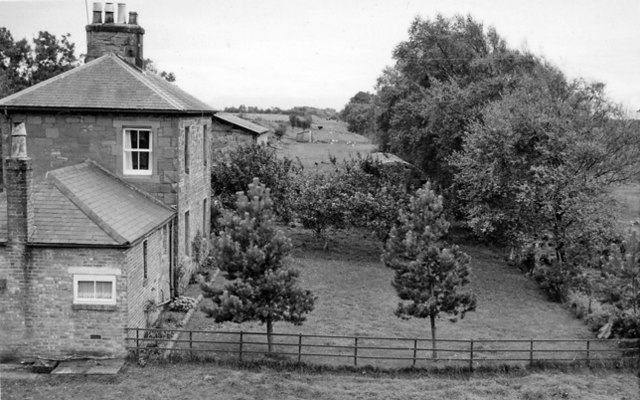 Bowness-on-Solway Station (converted). View southward, towards Brayton; former Caledonian Railway Solway Junction line, Kirtlebridge - Brayton over Solway Viaduct (located behind camera). This station and the line to Brayton were closed 1/9/21 - so it's not surprising there is a flourishing garden and farmland in 1961. (Traces of the Scottish part of this abortive 'international' railway apparently lasted until 1951).